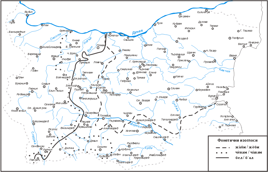 Map showing phonological isoglosses of Bulgarian speech.